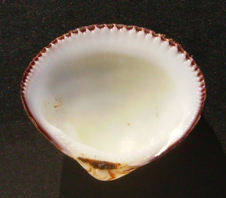 Glycymeris modesta (inside) dredged from north of Pakiri, New Zealand. This work has been released into the public domain by its author, Graham Bould. This applies worldwide. In some countries this may not be legally possible; if so: Graham Bould grants anyone the right to use this work for any purpose, without any conditions, unless such conditions are required by law.